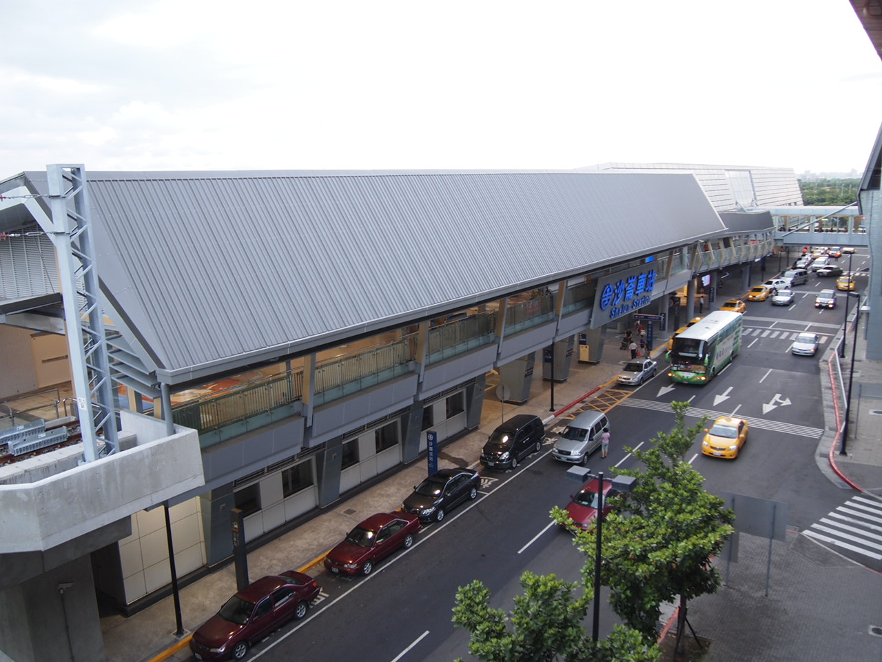 TRA Shalun Station exterior